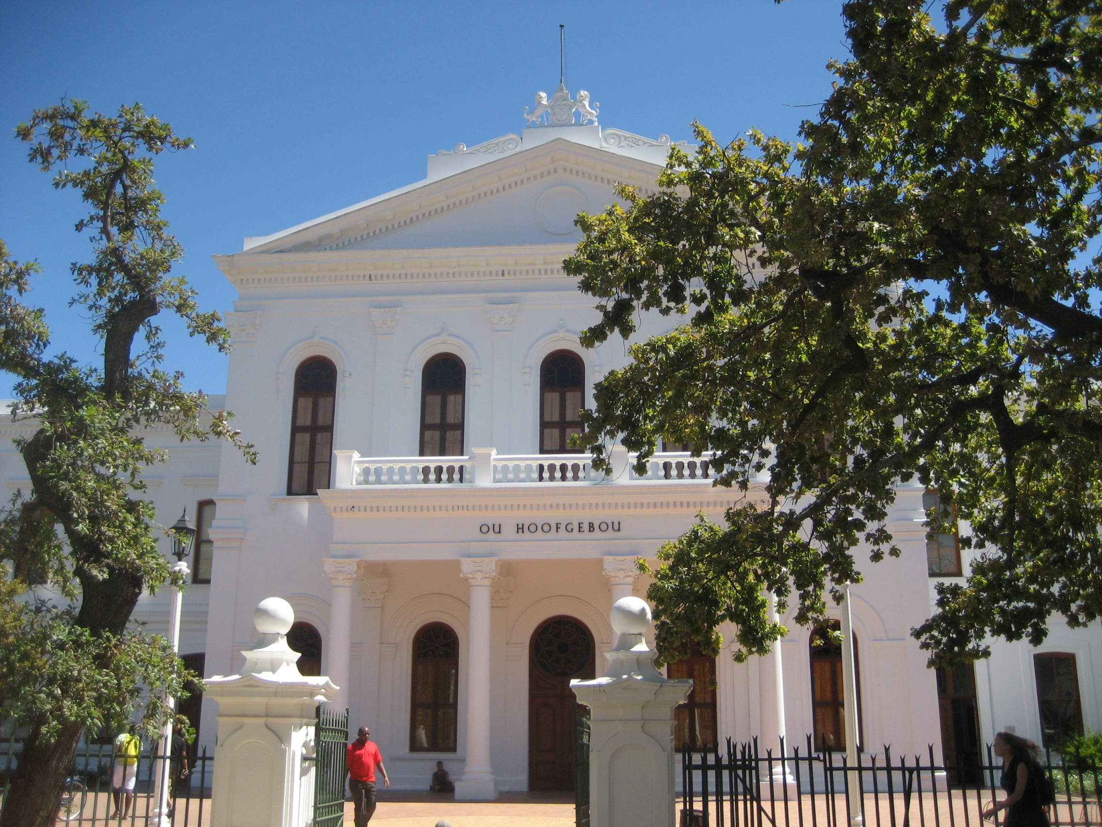 Old Main Building (Ou Hoofgebou), Stellenbosch University (South Africa)(South Africa)